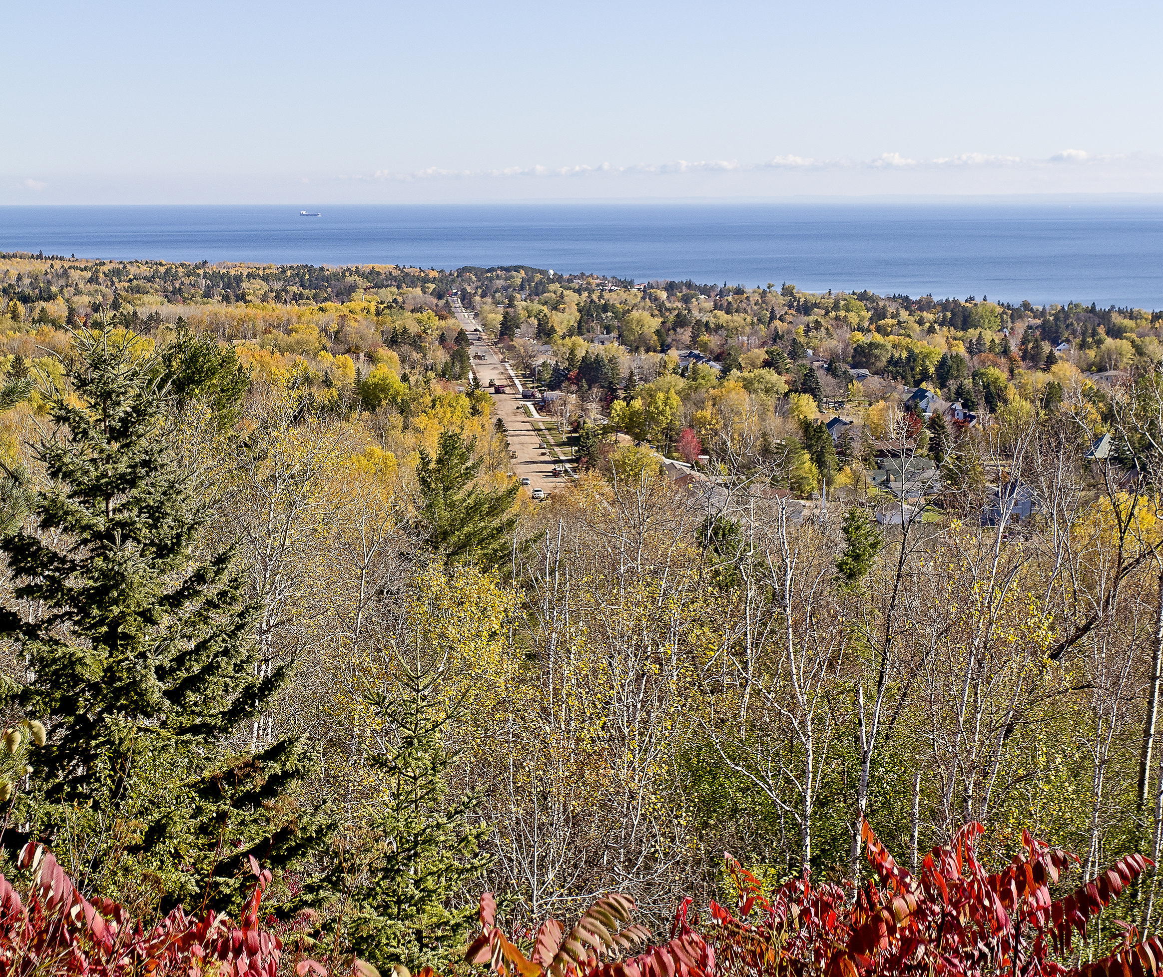 View From Hawk Ridge, photograph by Randen Pederson